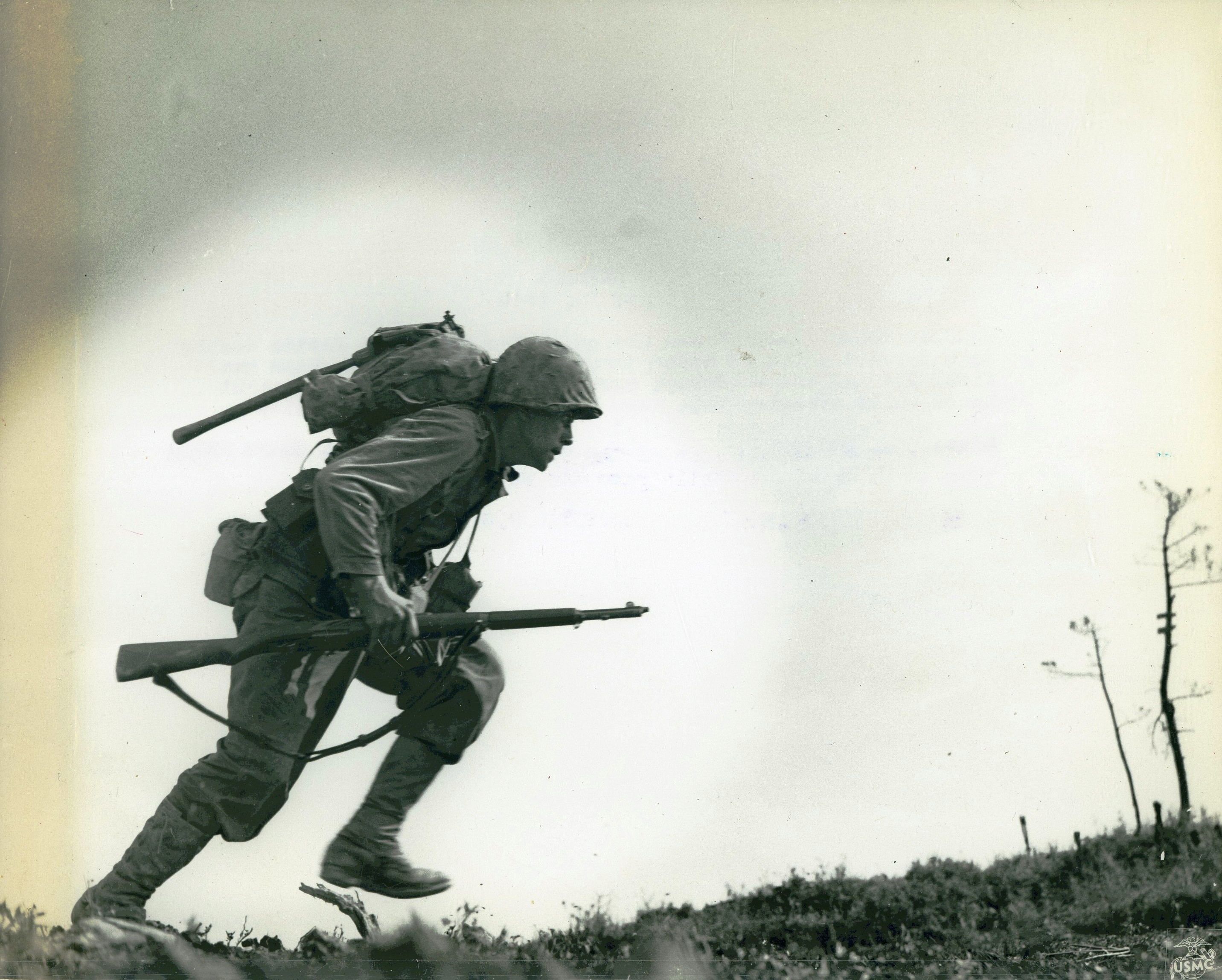 The caption on this photograph reads "Through "Death Valley"-Moving on the double, a Marine dashes to a forward point of cover through a hail of Jap machine gun fire. The Marines sustained more than 125 casualties in eight hours while crossing this draw and dubbed in "Death Valley."" From the Photograph Collection (COLL/3948), Marine Corps Archives & Special Collections OFFICIAL USMC PHOTOGRAPH